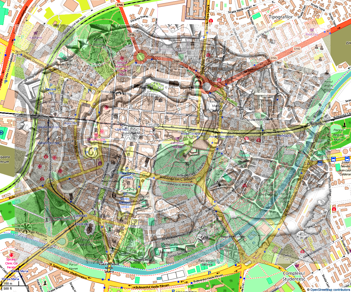 The Ottoman city on today's map of Timisoara.